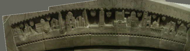 Stone frieze above Bertram Goodhue's remains interred in the north wall of the Church of the Intercession, Harlem, New York City, created by Goodhue collaborator Lee Lawrie. The frieze depicts Goodhue's best-known work.